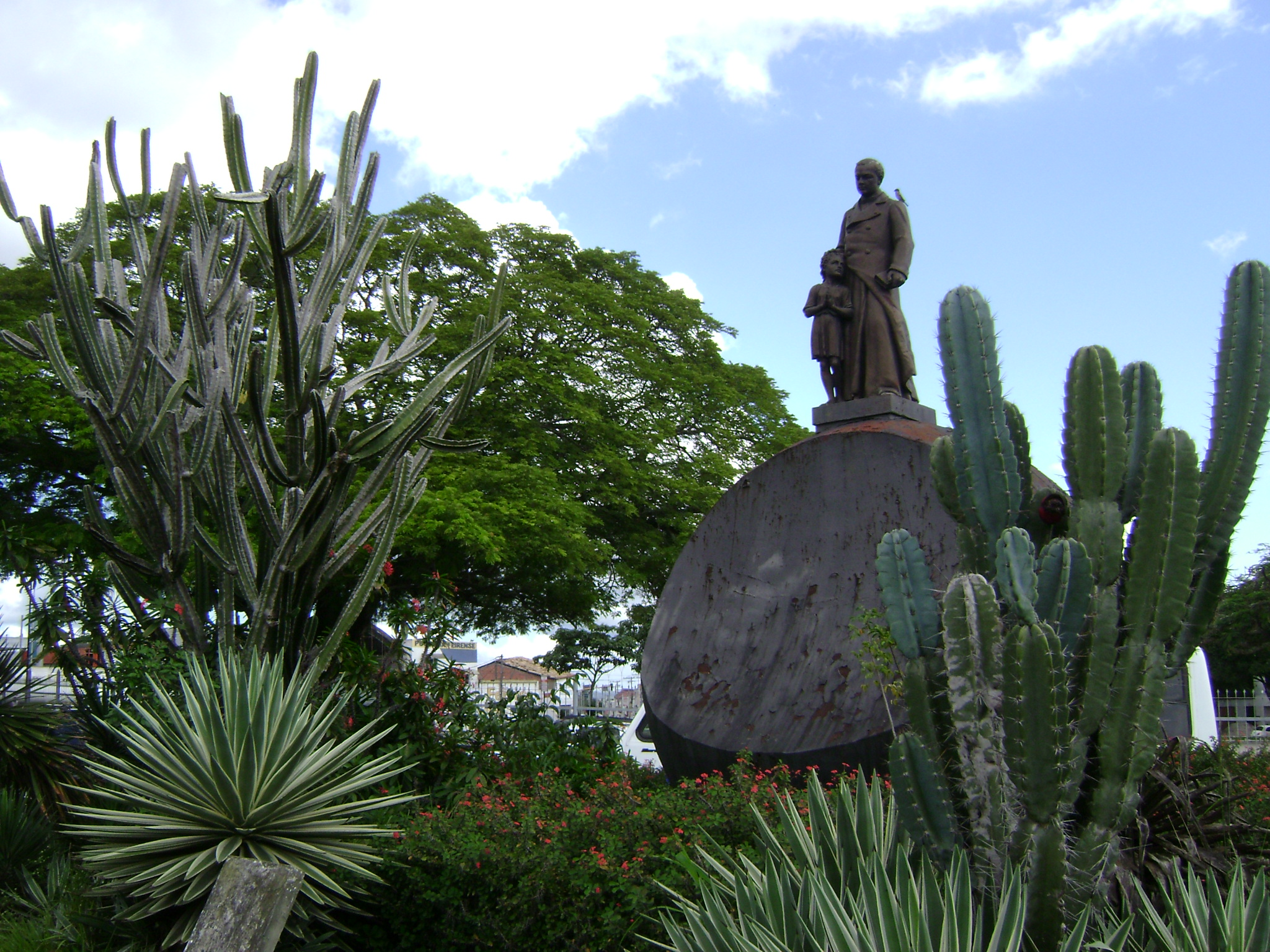 Statue in Feira de Santana, Bahia, Brazil.